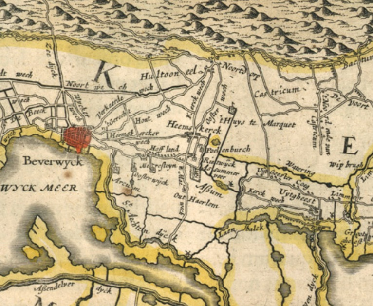 Heemskerk on the map of North Holland by Johannes Blaeu, 1645